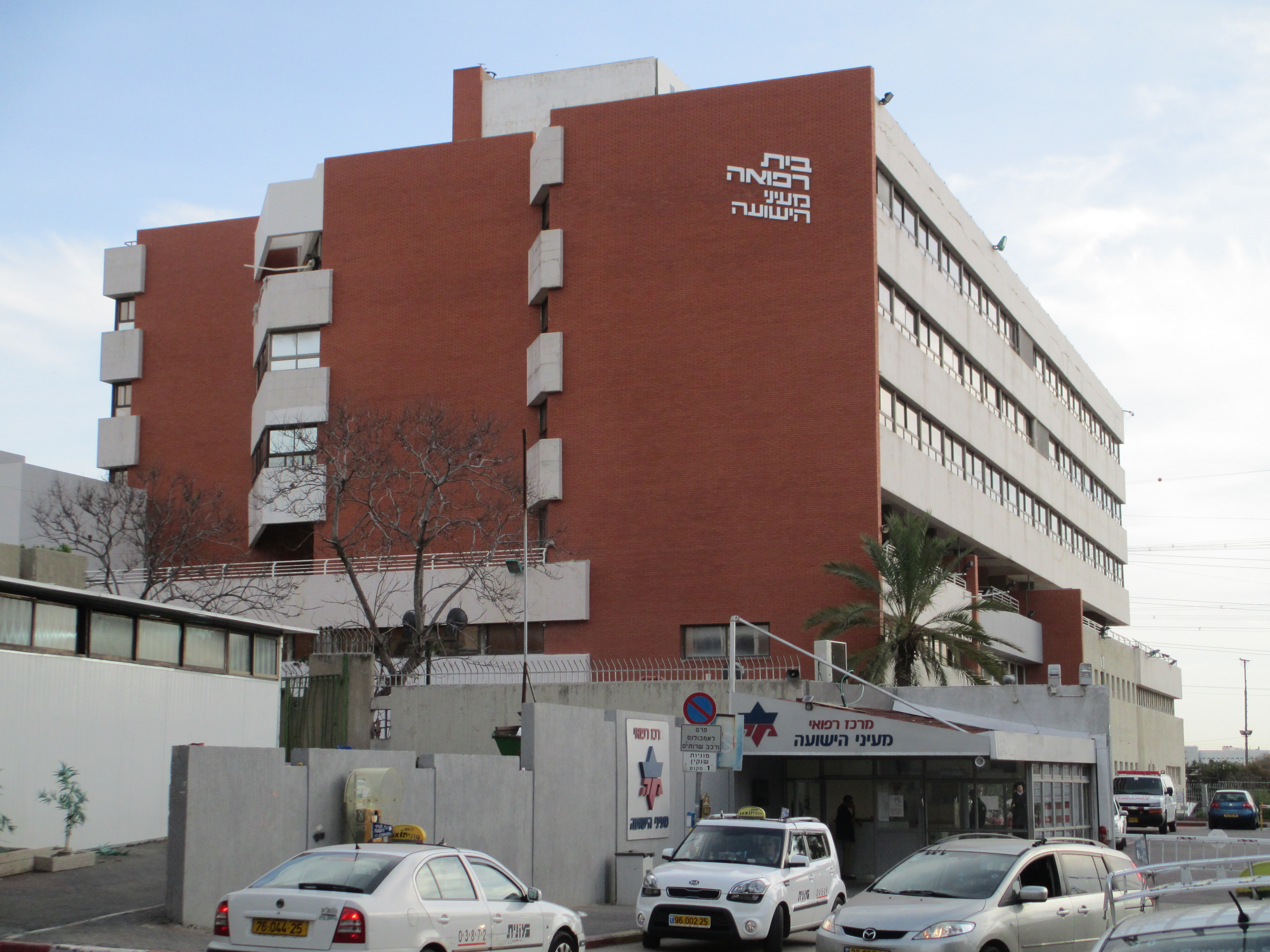 Ma'ayanei Hayeshuah medical center in Bnei Brak